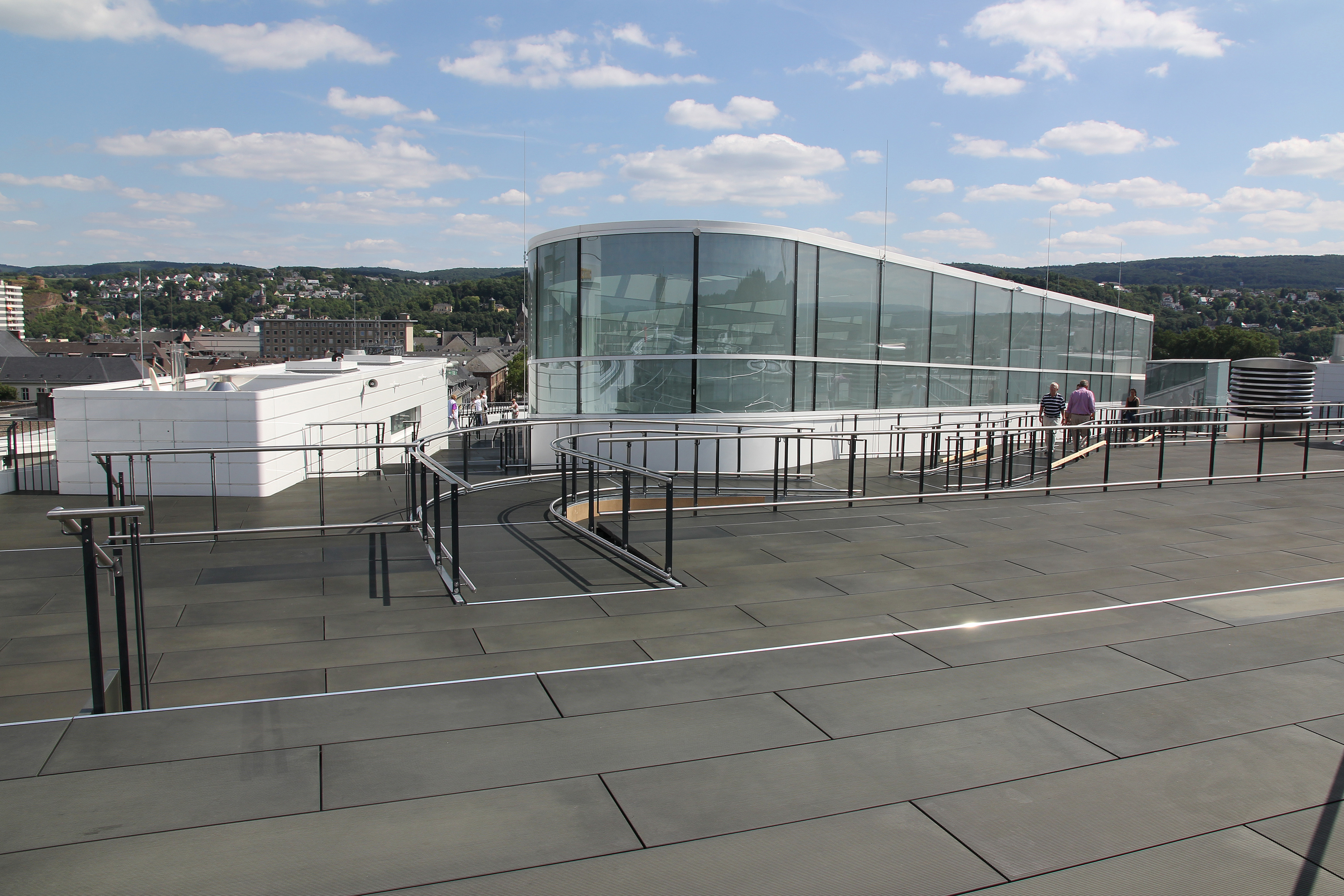 Forum Confluentes in Koblenz